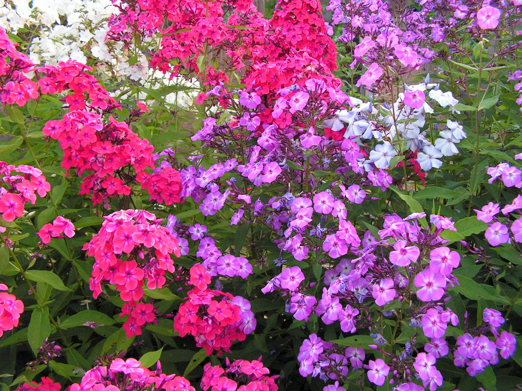 Garden phlox (Phlox paniculata). Moscow region, Russia.